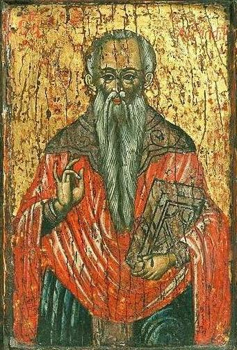 Cropped from an icon of Saint Charalampus, Greek - Central School, early en:17th century Χαραλάμπος is variously transliterated as Charalampus, Charalampos, Charalambos, Haralampus, Haralampos or Haralambos.